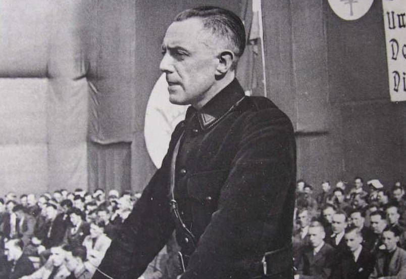 Jors van Severen, Belgian politician (1894-1940)